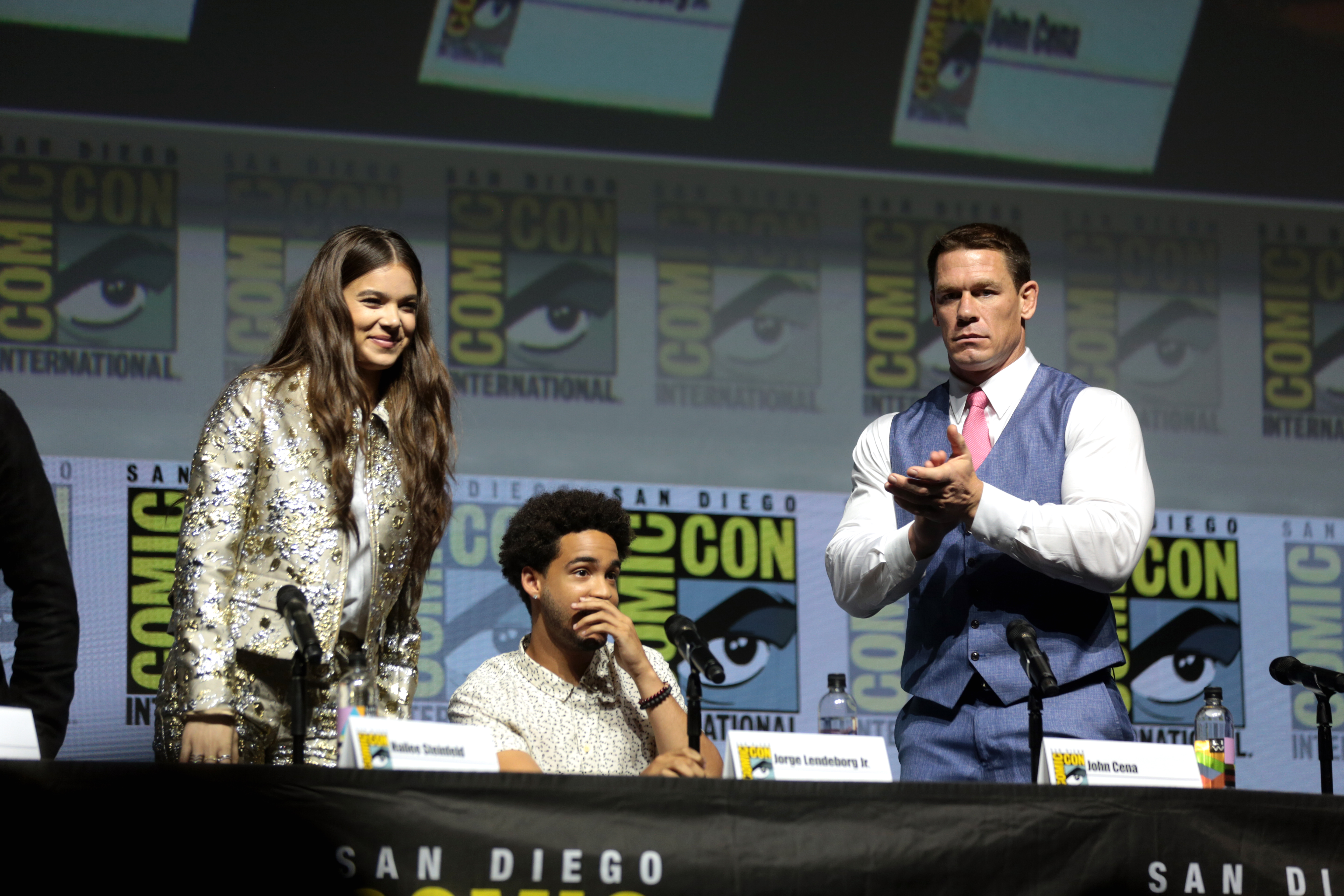 Hailee Steinfeld, Jorge Lendeborg Jr. and John Cena speaking at the 2018 San Diego Comic Con International, for "Bumblebee", at the San Diego Convention Center in San Diego, California.